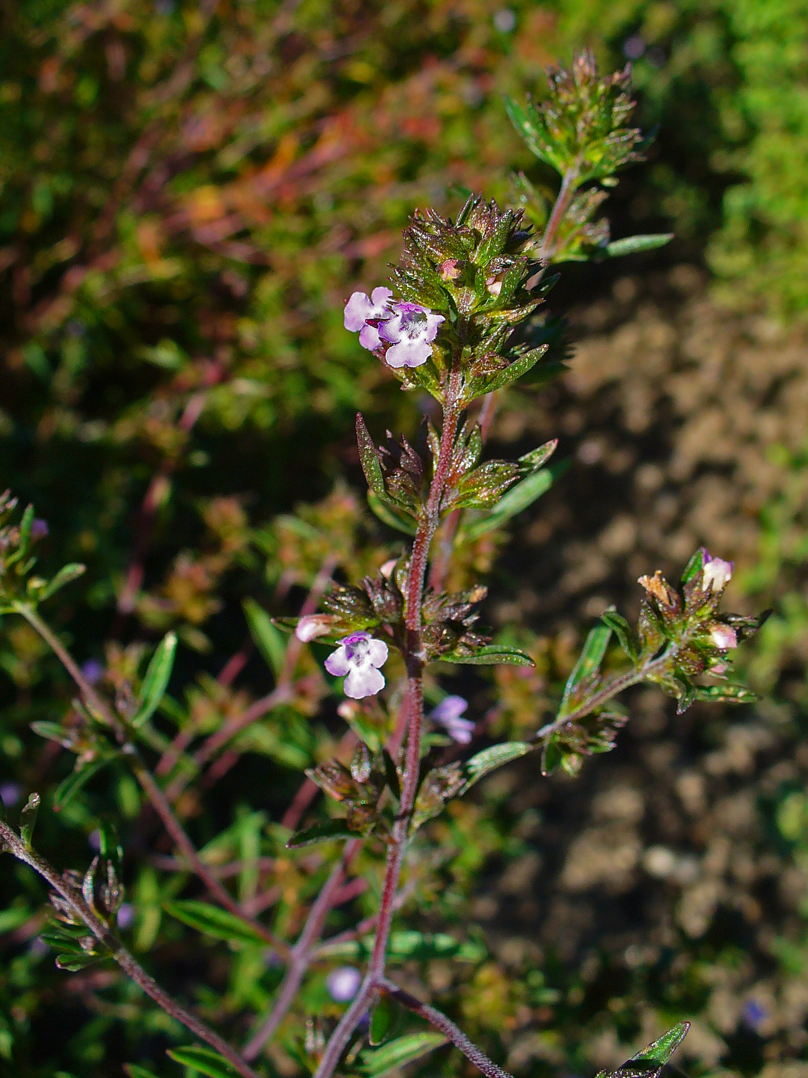 Satureja hortensis, Lamiaceae, Summer Savory, flowers. Botanical Garden KIT, Karlsruhe, Germany.